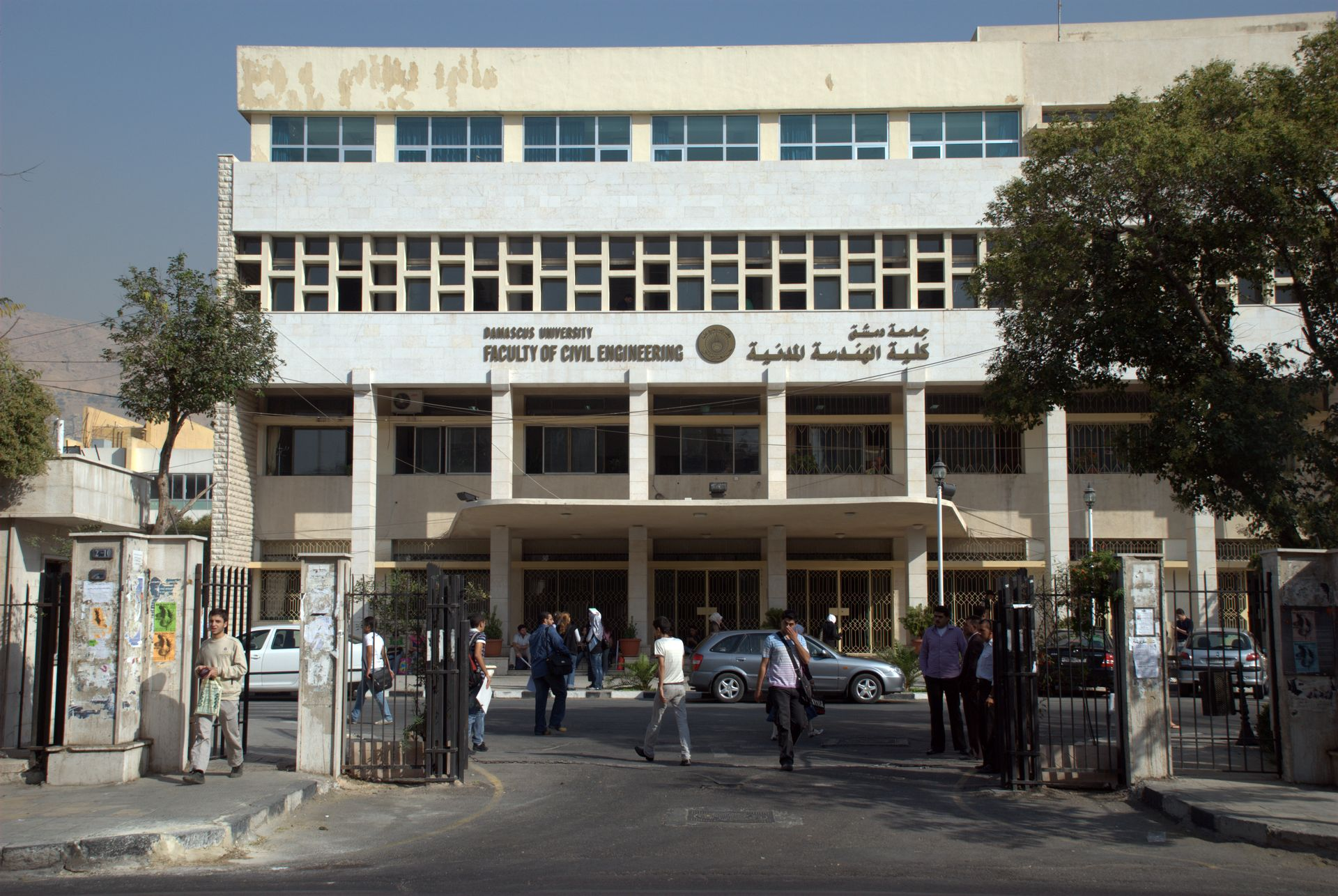 University of Damascus, Faculty of Engineering